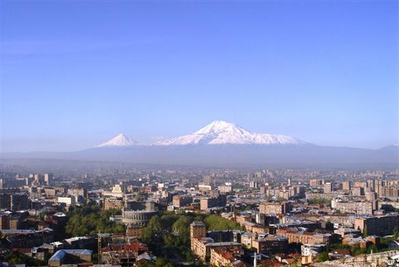 Photo of Yerevan, Mount Ararat